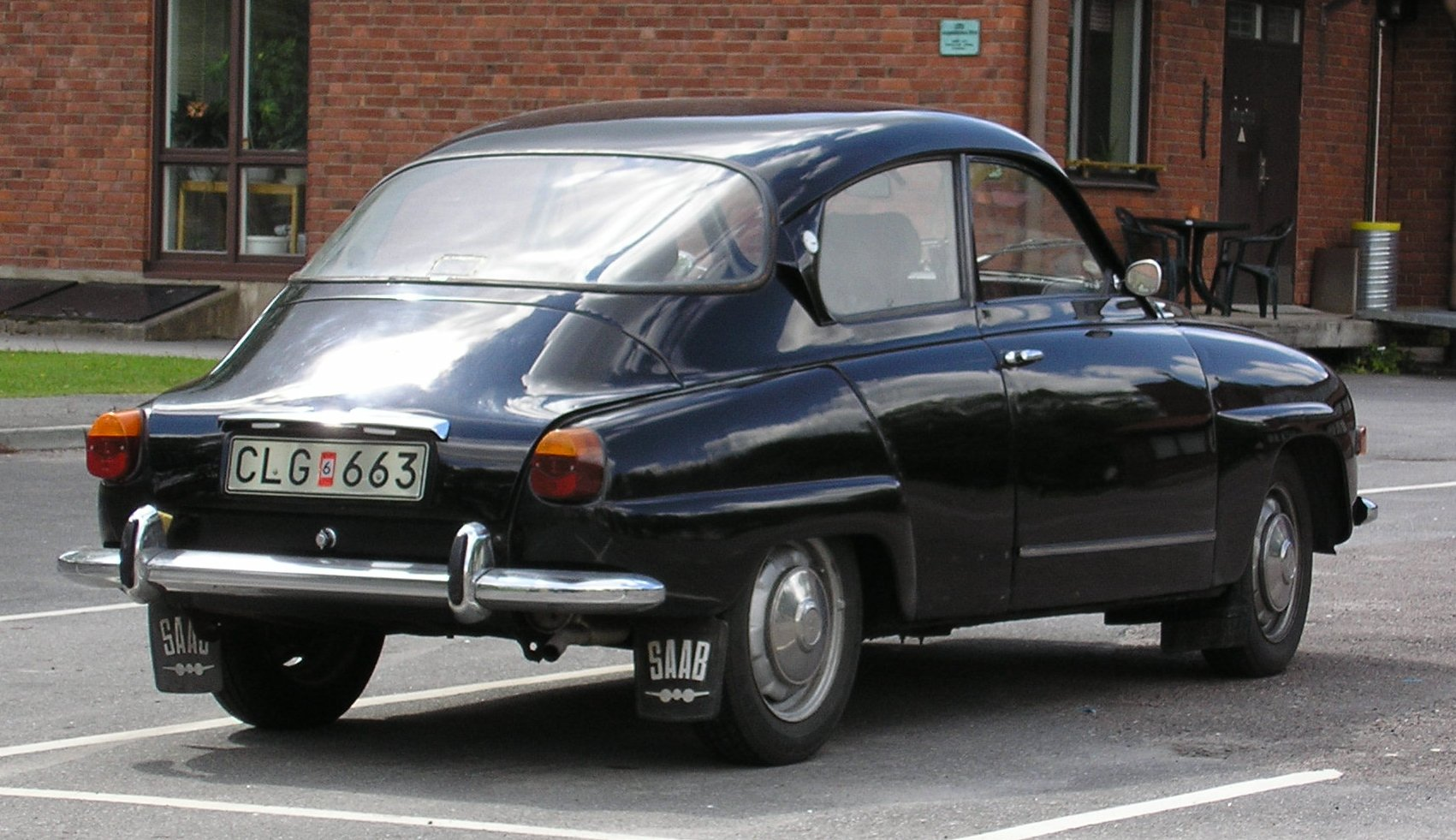 A 1971 SAAB 96 V4. Photographed by myself in Uppsala, Sweden 2005.